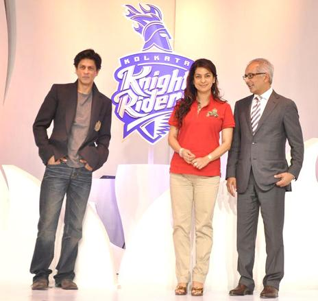 Co-owner Shahrukh Khan with Juhi Chawla and her husband Jay Mehta at the launch of the new logo and marketing campaign for KKR in 2012.